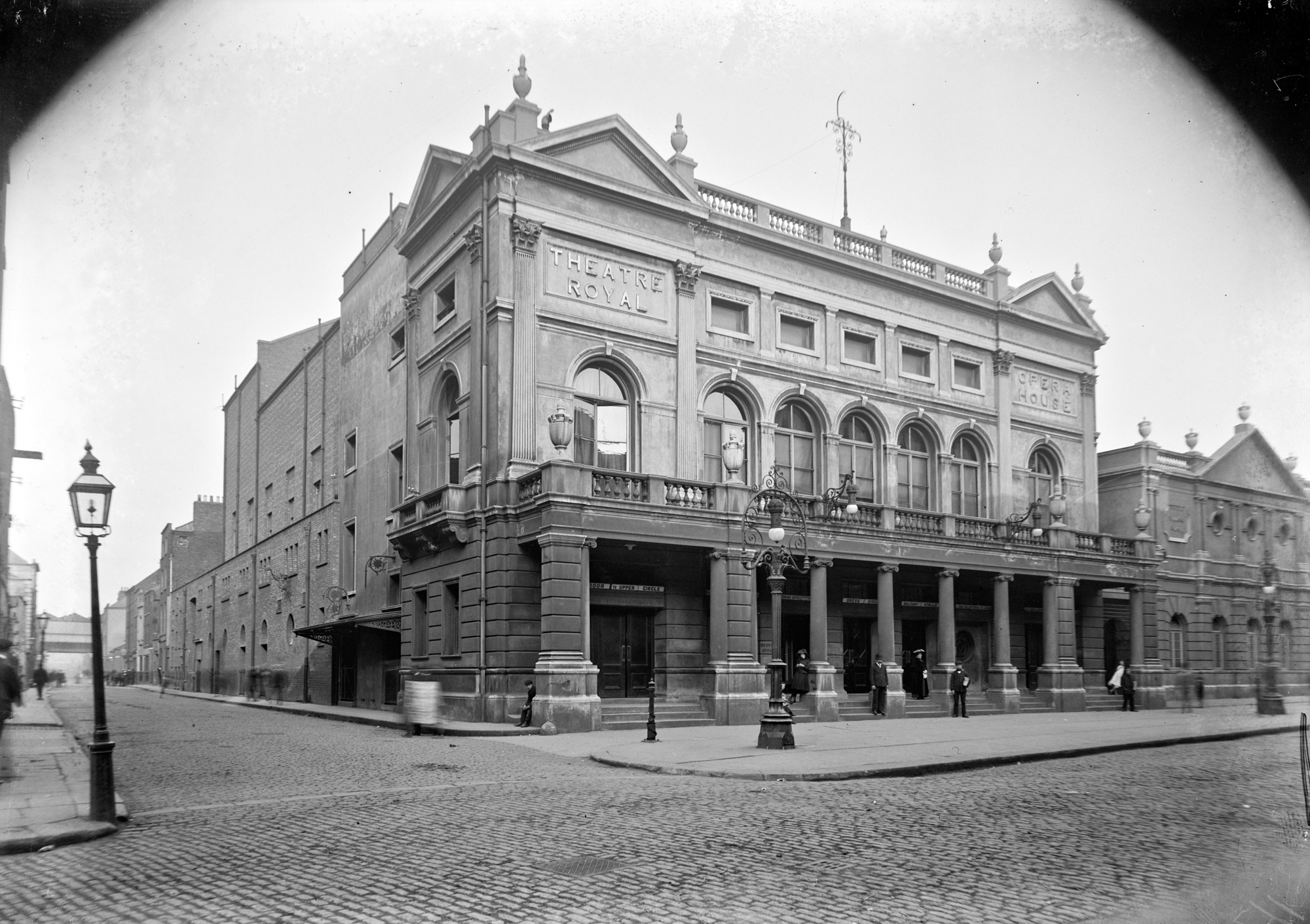 For many years an iconic building in the heart of Dublin it was torn down much to the dismay of many Dubliners and theatre goers! The streetview of this won't be pretty! Photographer: Unknown Collection: Eason Photographic Collection Date: between 1910-1930 NLI Ref: Eas 1700 You can also view this image, and many thousands of others, on the NLI’s catalogue at